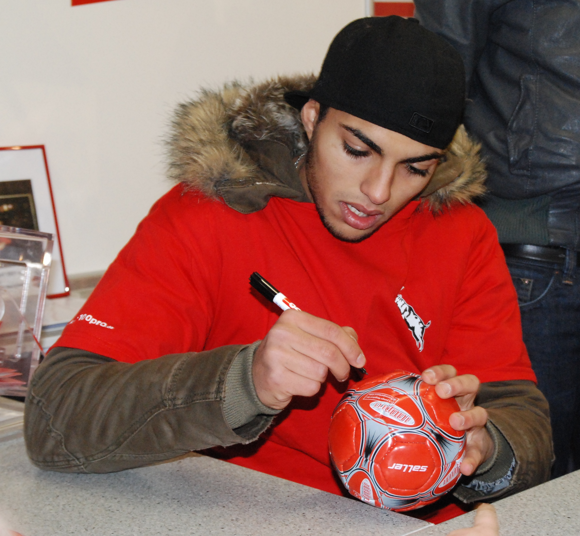 The soccer player Adil Chihi at a training of a youth team of the SC Altendorf-Ersdorf.